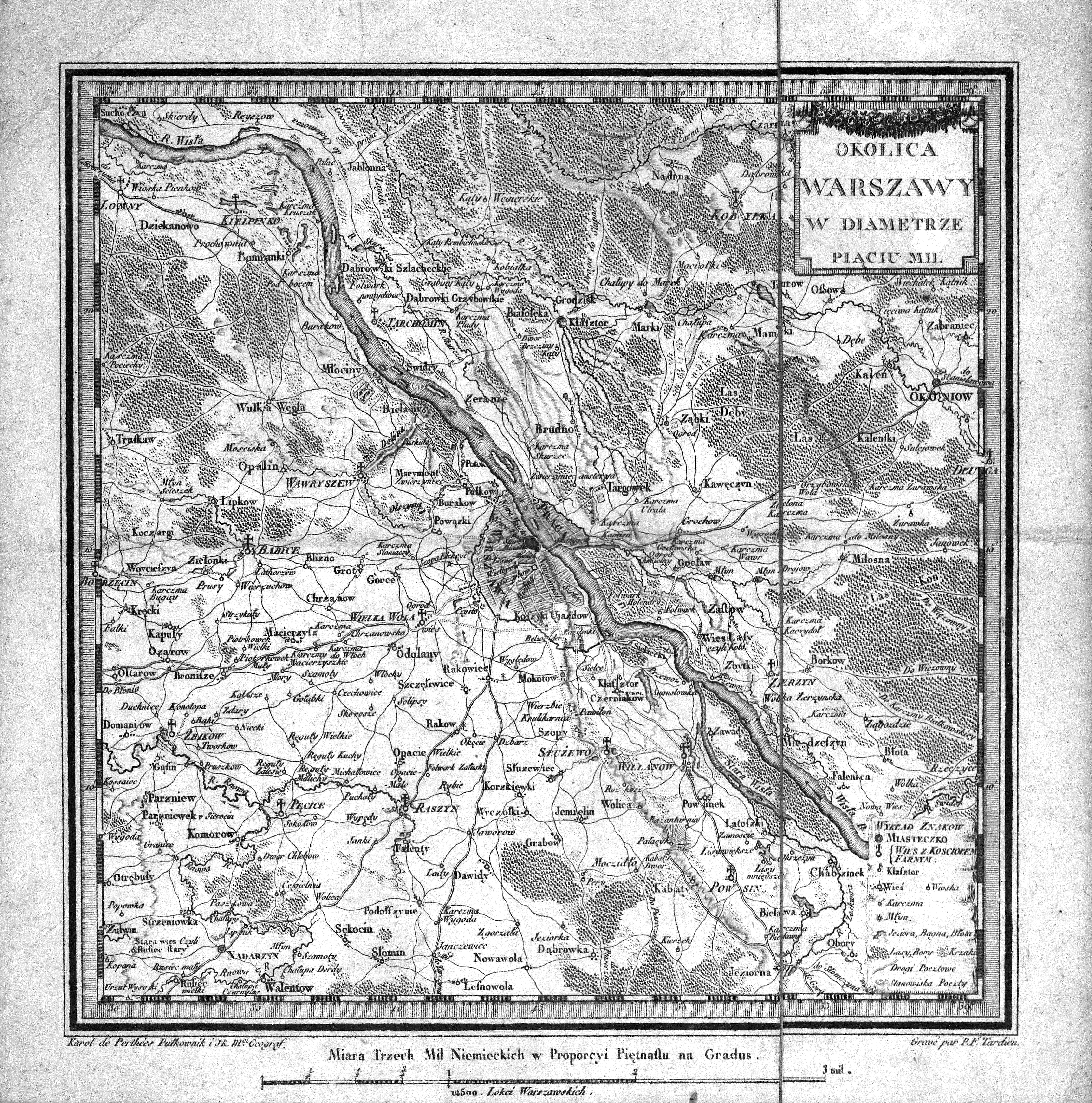 Okolica Warszawy w diametrze pięciu mil